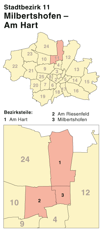 Boroughs of Munich map series